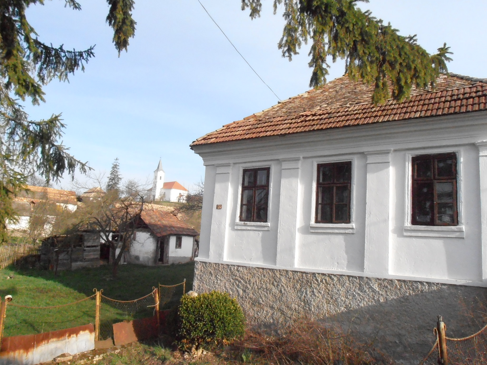 House and the reformed church in Zádorfalva, Hungary